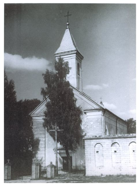 The Catholic Church dedicated to St Michael the Archangel in Olejow, the state in 1939